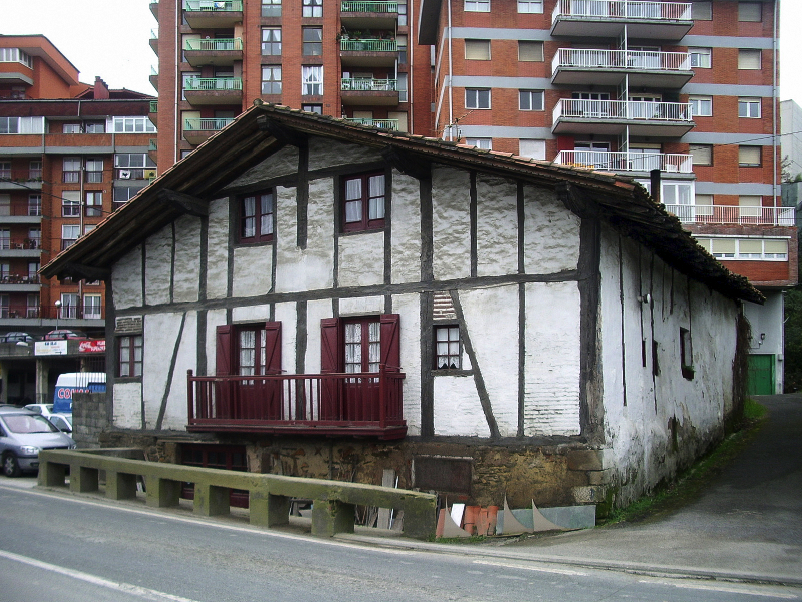 Patxillardegi farm, in Loiola neighbourhood (San Sebastian, Basque Country)